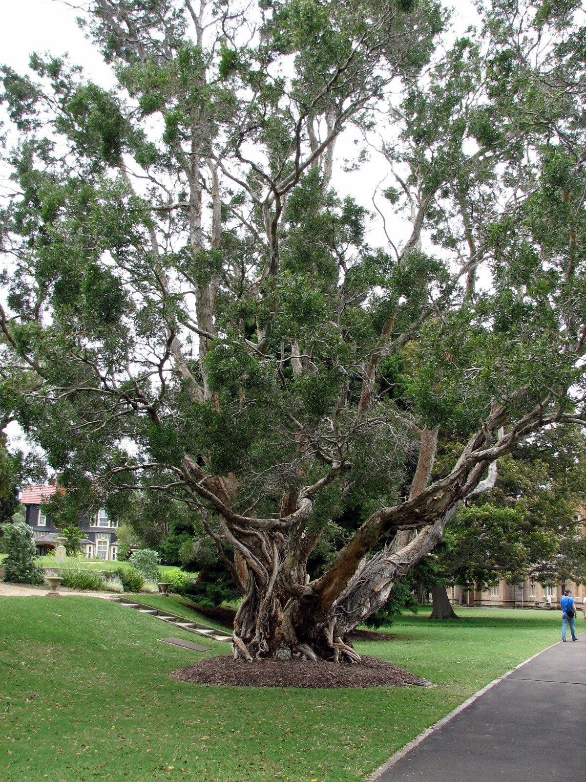 Melaleuca leucadendra at the Royal Botanic Gardens, Sydney. Planted by Queen Elizabeth II in 1954.